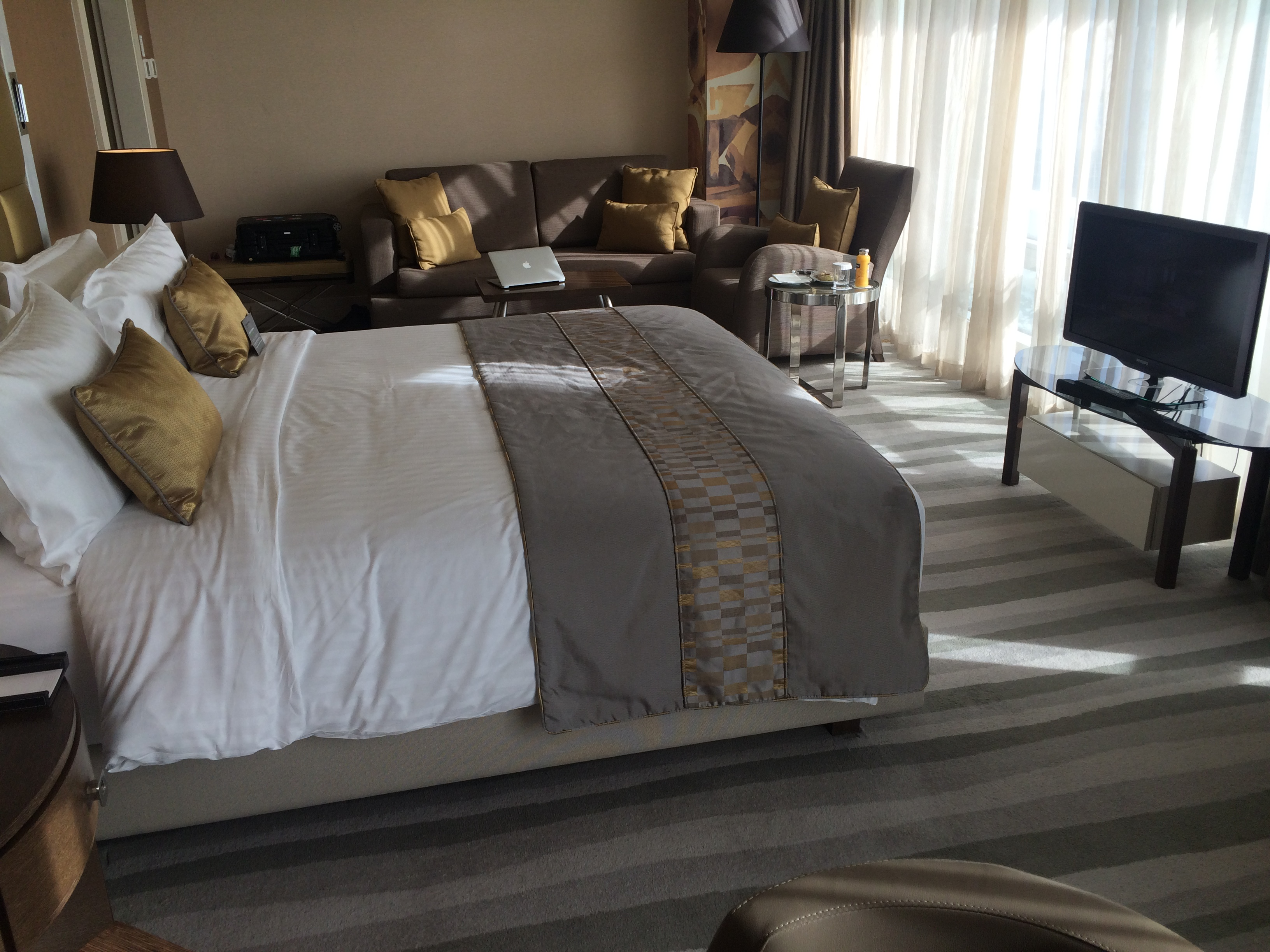 Suite room at the Wyndham Grand Istanbul Europe Hotel